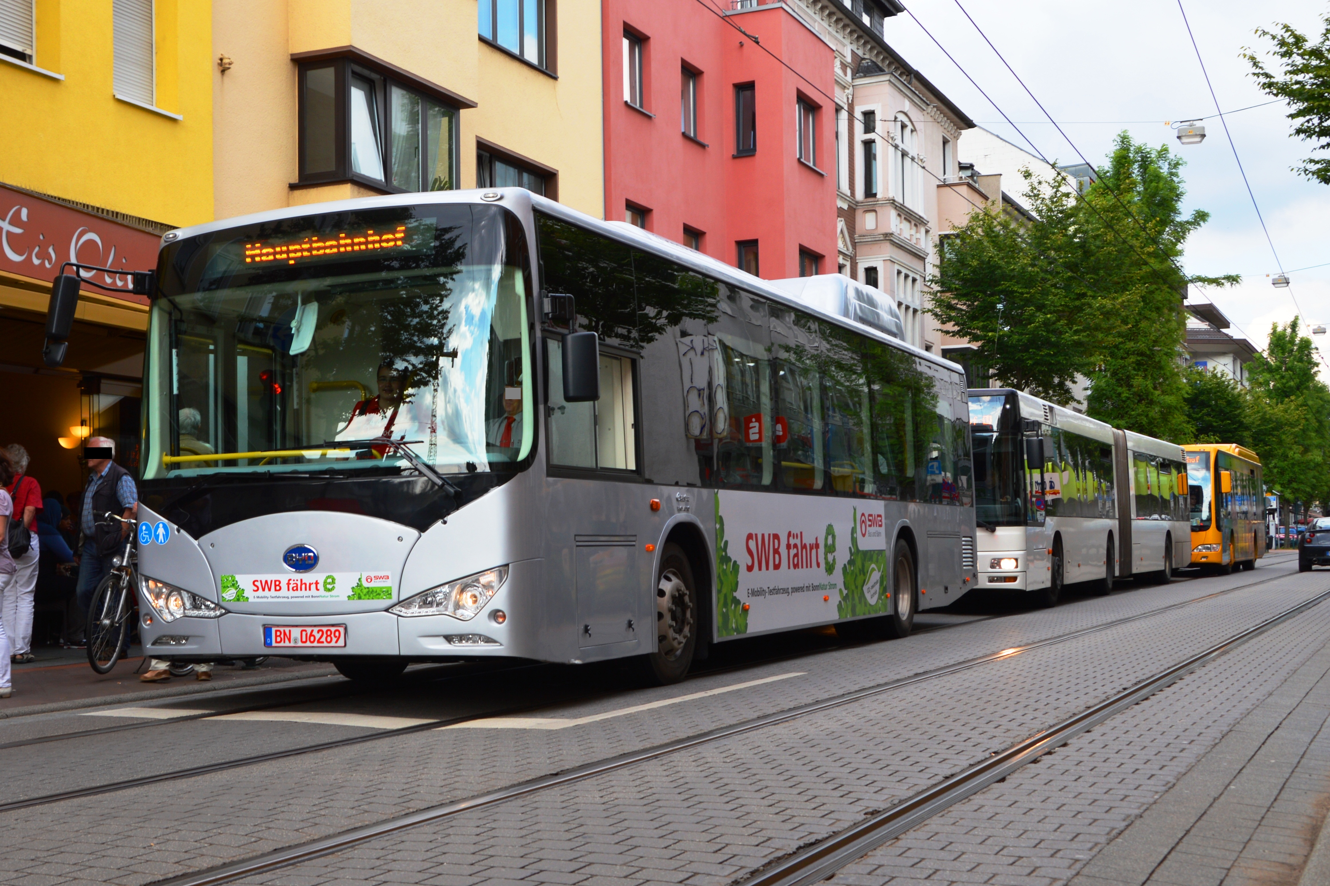 BYD ebus (electric bus). Test vehicle. Photo taken 2013 in Bonn, Germany. 中文（中国大陆）: 比亚迪K9. 在2013年在波恩举行的夏季测试车